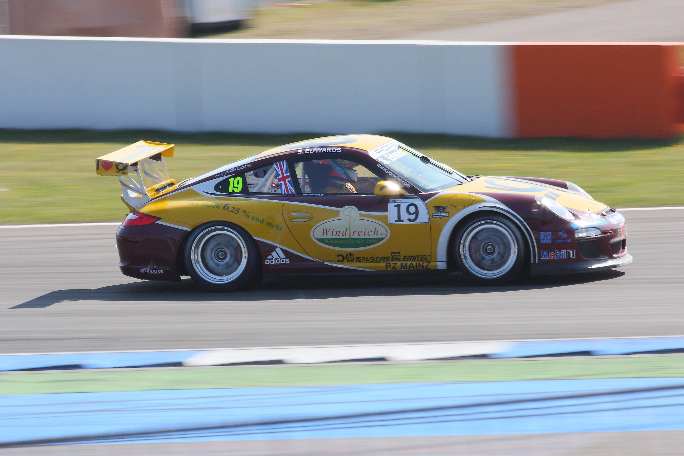 Porsche racing car at Hockenheim Ring, Sean Edwards (driver).